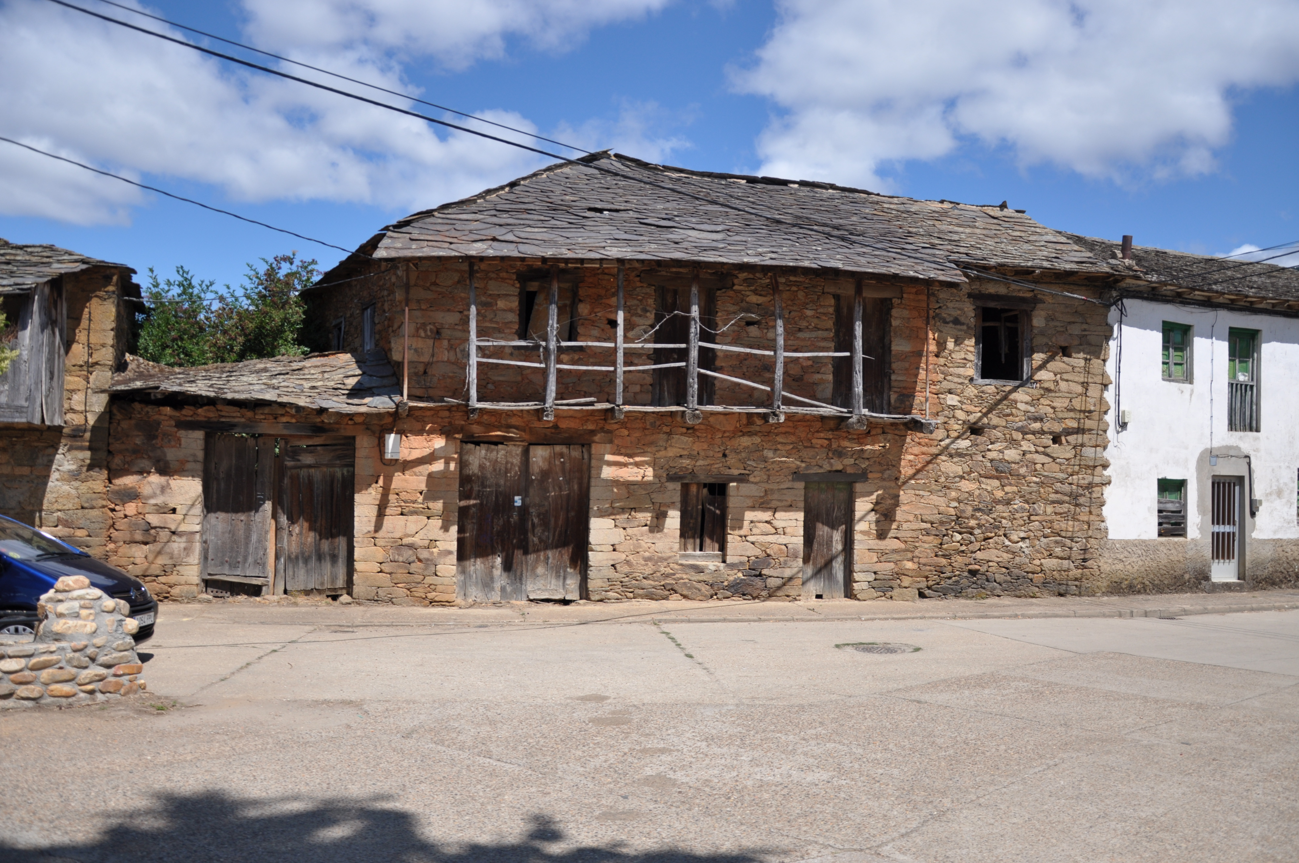 Traditional house in Truchas, La Cabrera, LE, Spain